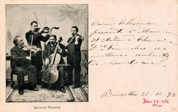 The string quartet of César Thomson (far left). Other musicians are Nicolas Lamoureux (2nd violin), Léon van Hout (viola) and Édouard Jacobs (cello).